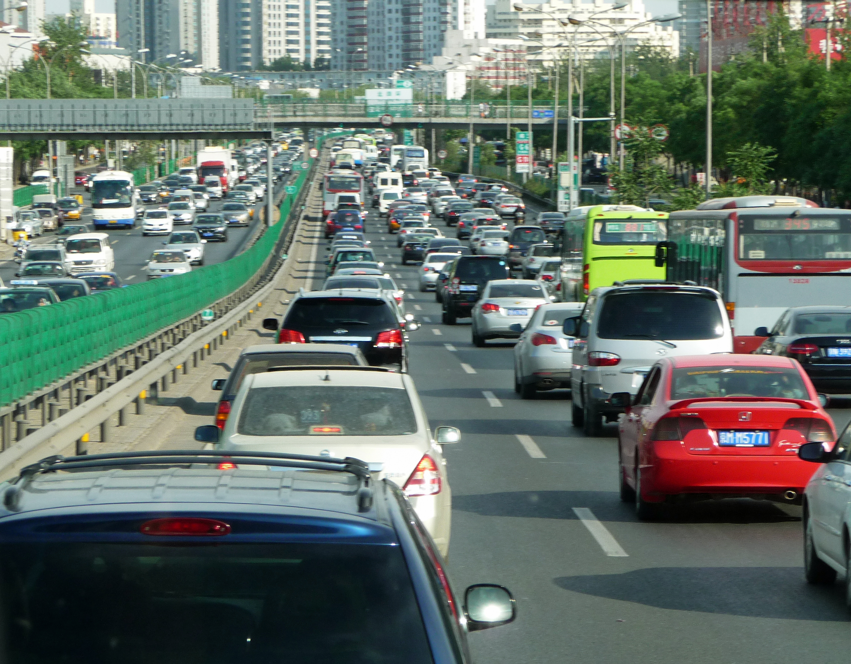 Traffic jam in Beijing